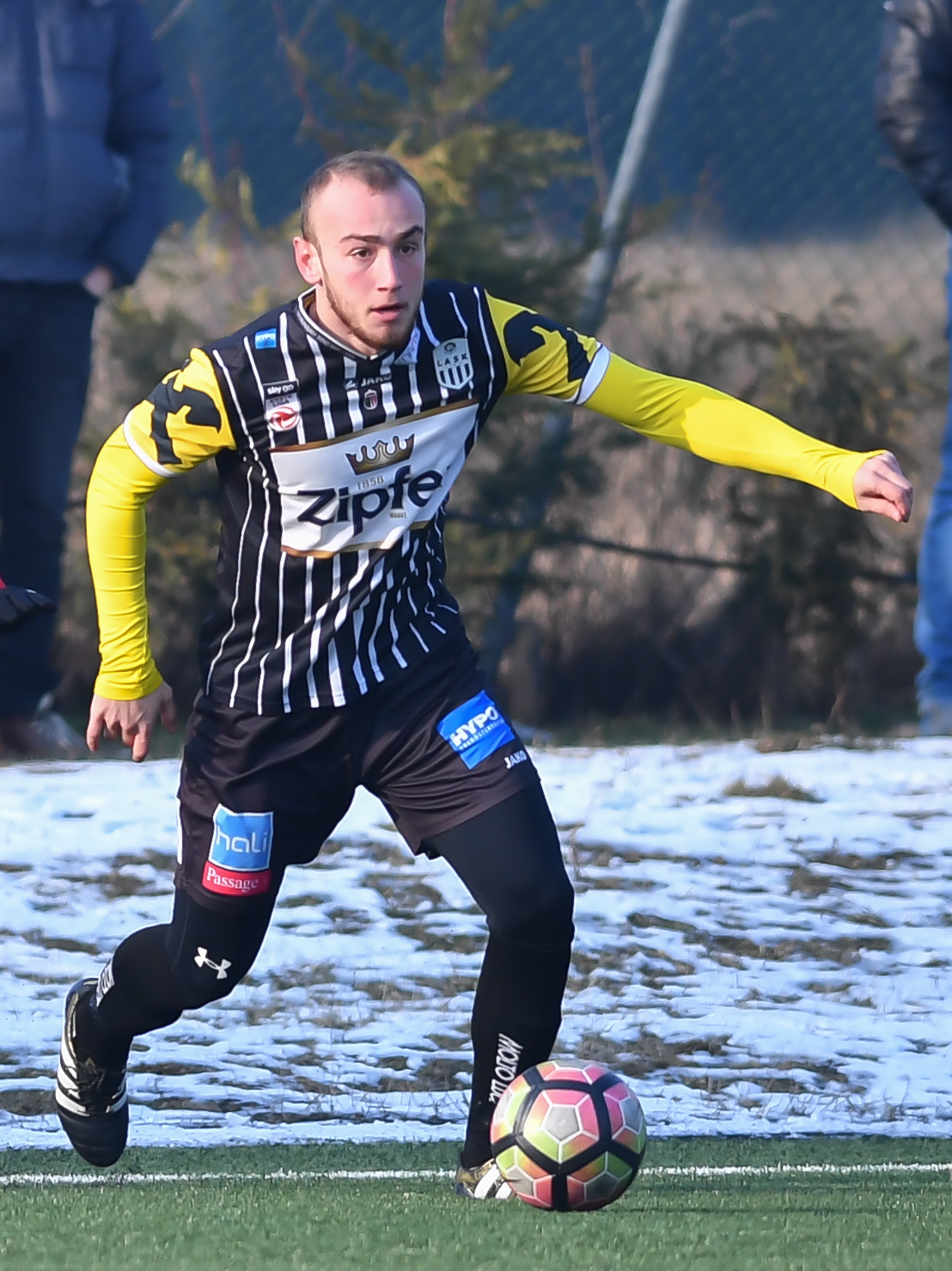 20/1/2017 Preparation match - FC Admira Wacker Moedling vs LASK Linz.